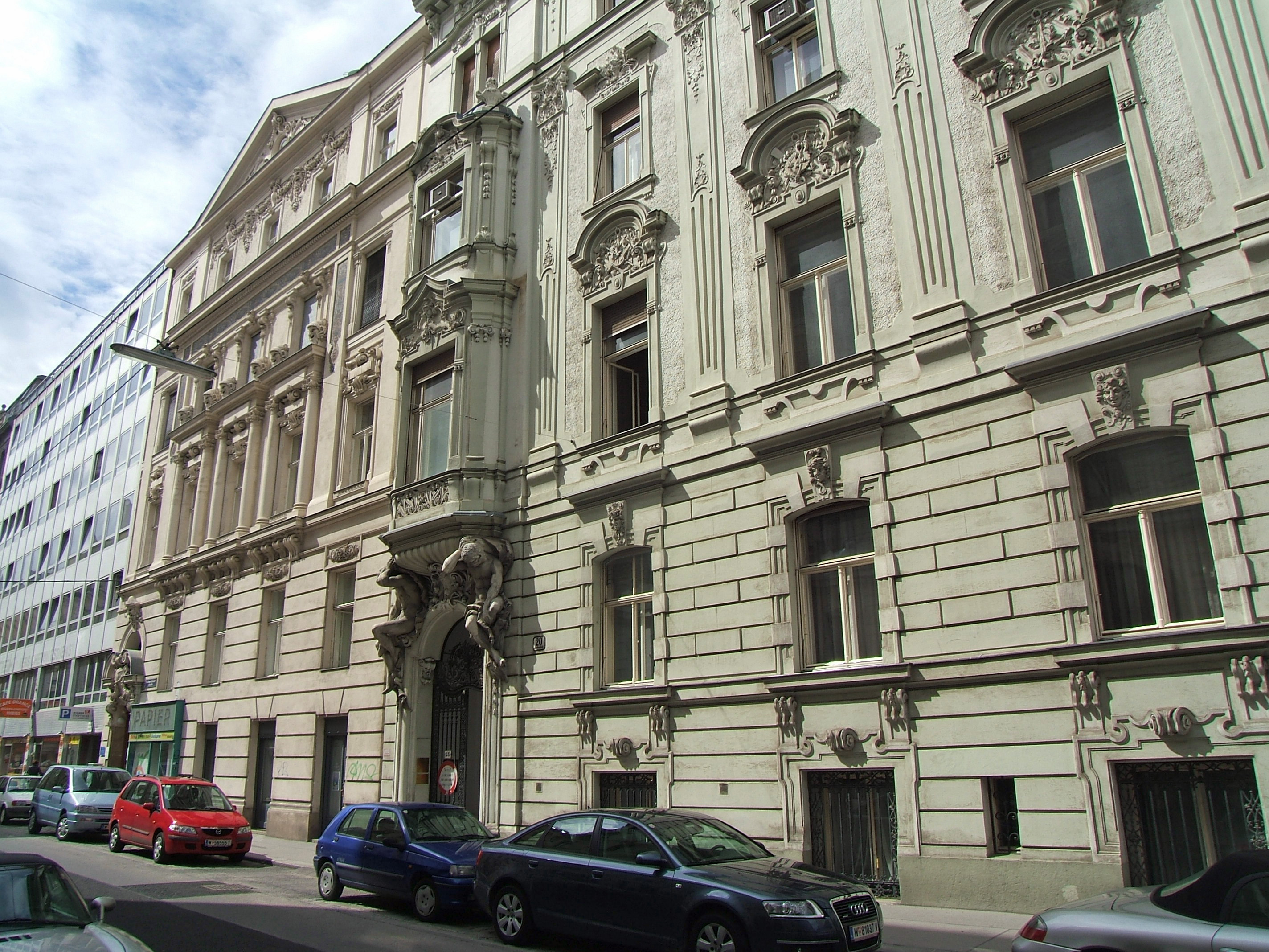 Palais Lanna in Vienna 4th district Argentinierstraße 20